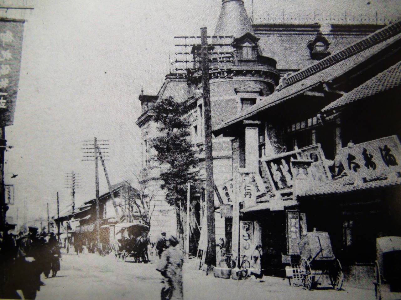 Yoka-Machi Street Kofu-City